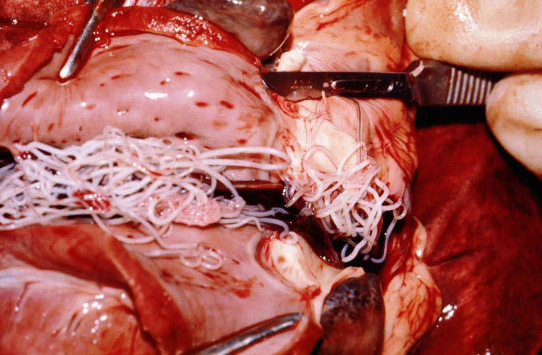 Infection of heart of a dog with heartworm nematodes, Dirofilaria immitis.